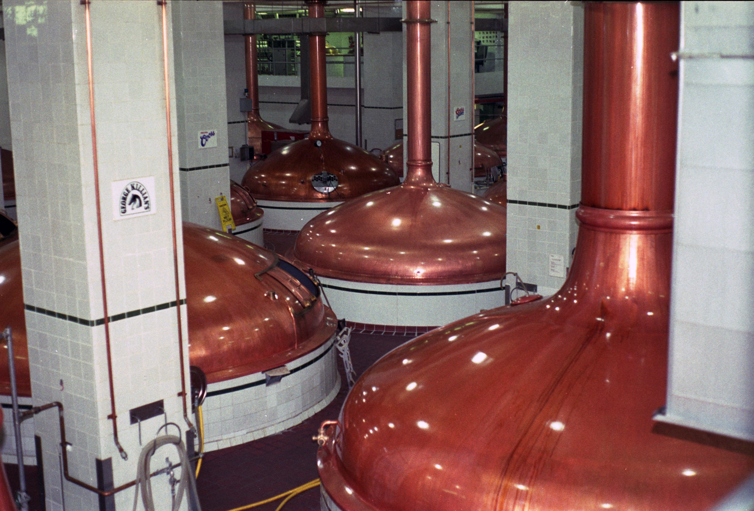 Brew Kettles at Coors Brewing Company Golden, Colorado